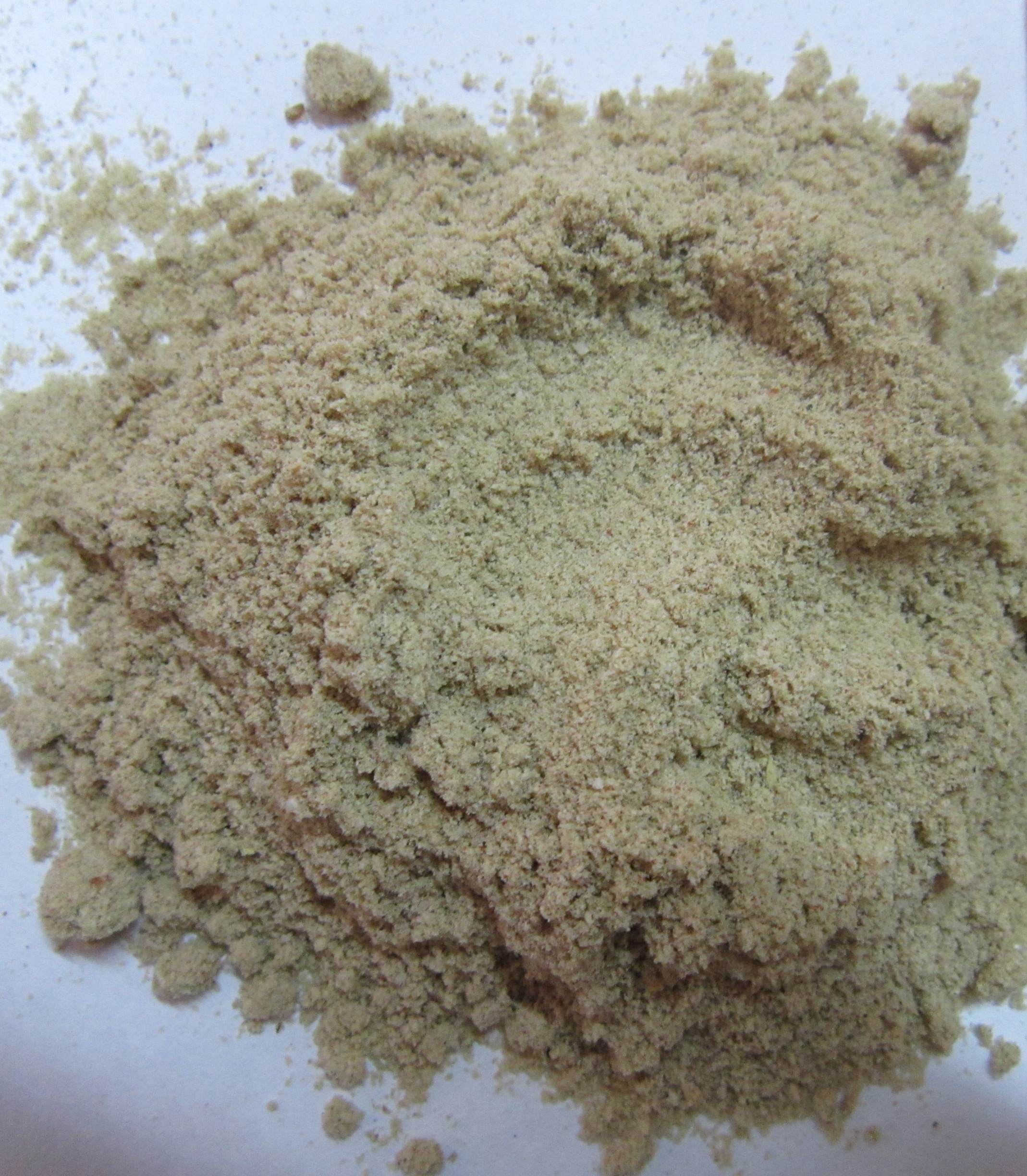 Rice bran. The oil has been extracted from the bran.